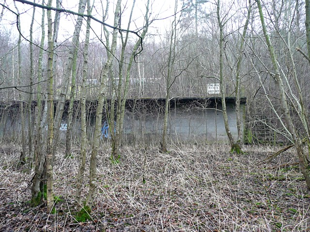 Long Meg Mine, Little Salkeld A disused Long Meg Gypsum and Anhydrite Mine. Here is a large concrete platform that looks to have been constructed in the mid-20C.